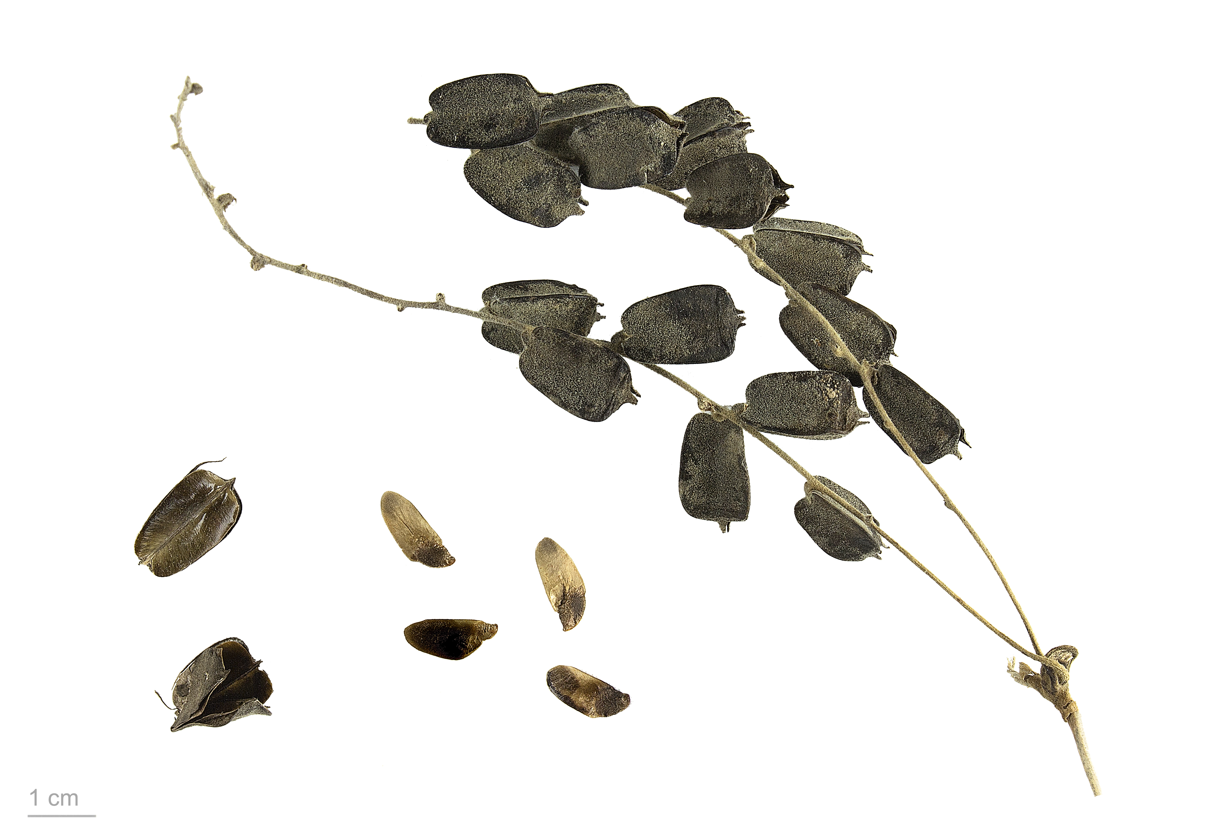 Dioscorea tomentosa, , seeds